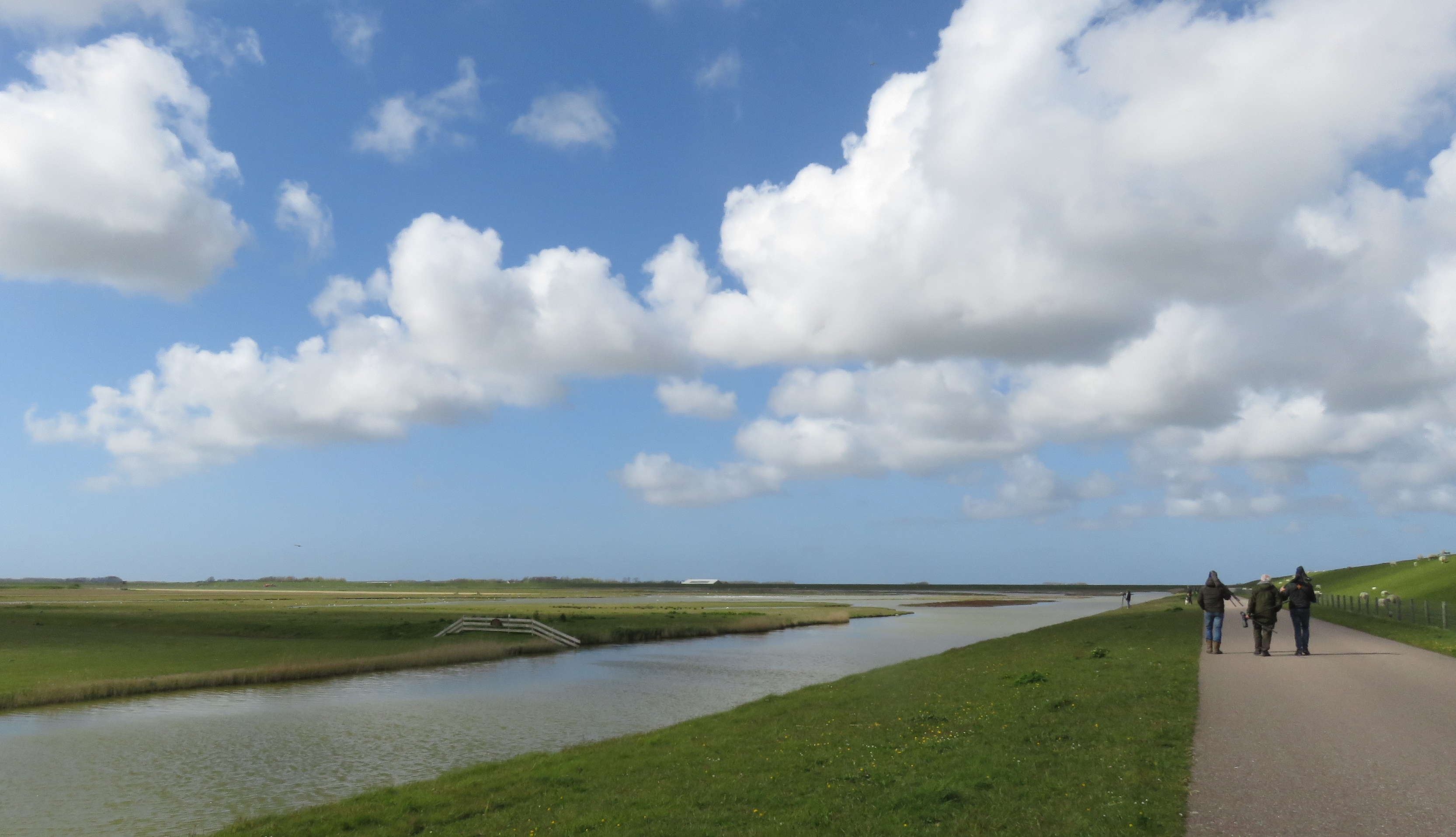 Nature reserve Utopia, Texel (NL). On the right the Lancasterdijk, which is closed for motorvehicles